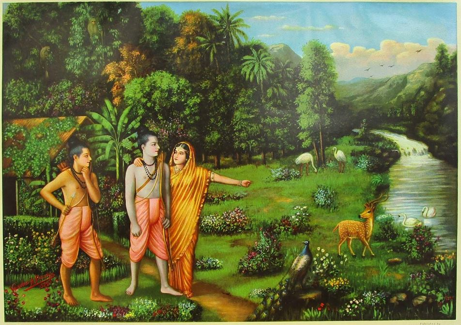 Shree Ram Vanvas Vasudeo H. Pandya Product Code: 12B_A-40 Condition: Immaculate Availability: Available Size: 14x20 inches Medium: German Oleograph Year: 1920's